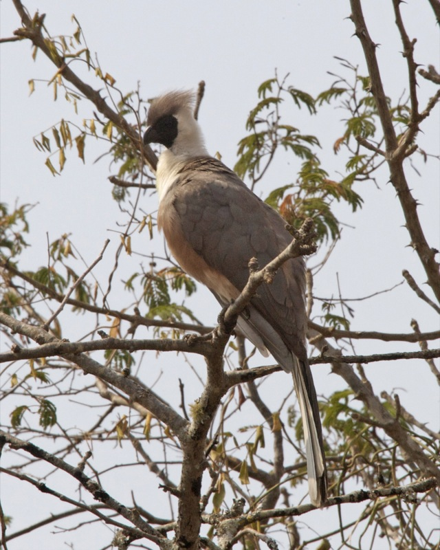 Bare-faced Go-away-bird Corythaixoides personatus leopoldi, Akagera National Park, Rwanda